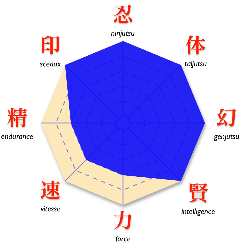 "Naruto" manga - Character "Hiruzen Sarutobi" - Capabilities diagram from Official Databooks data